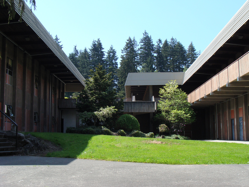 Courtyard of Lynnwood High School (near Alderwood Mall in Lynnwood) in 2008